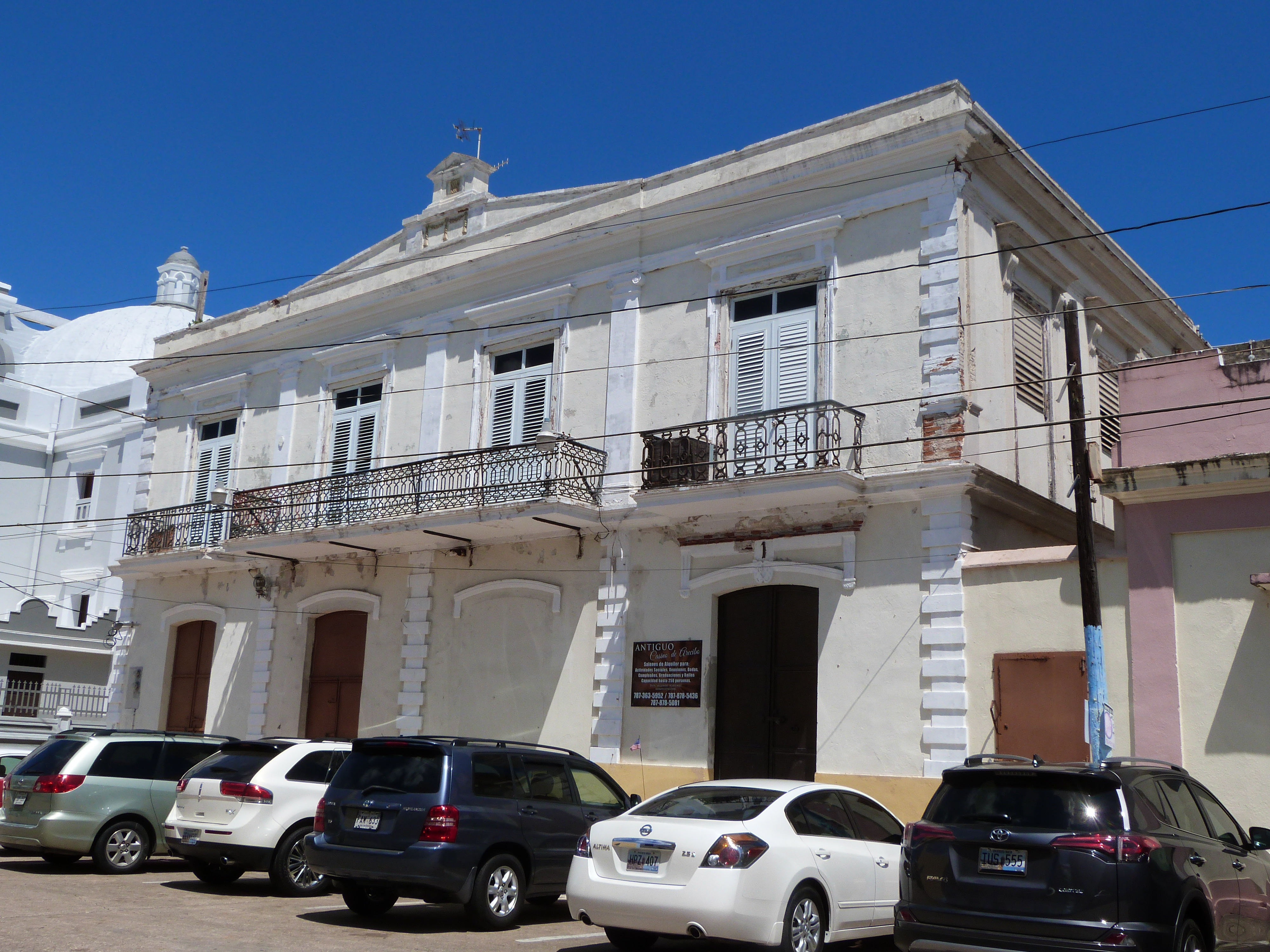 The historic Palacio del Marqués de las Claras (built 1888), located at Calle Gonzalo Marín #58 in Arecibo, Puerto Rico, is listed on the U.S. National Register of Historic Places.